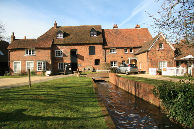 Mill Green Mill Owned by the Council and actively milling when this picture was taken.